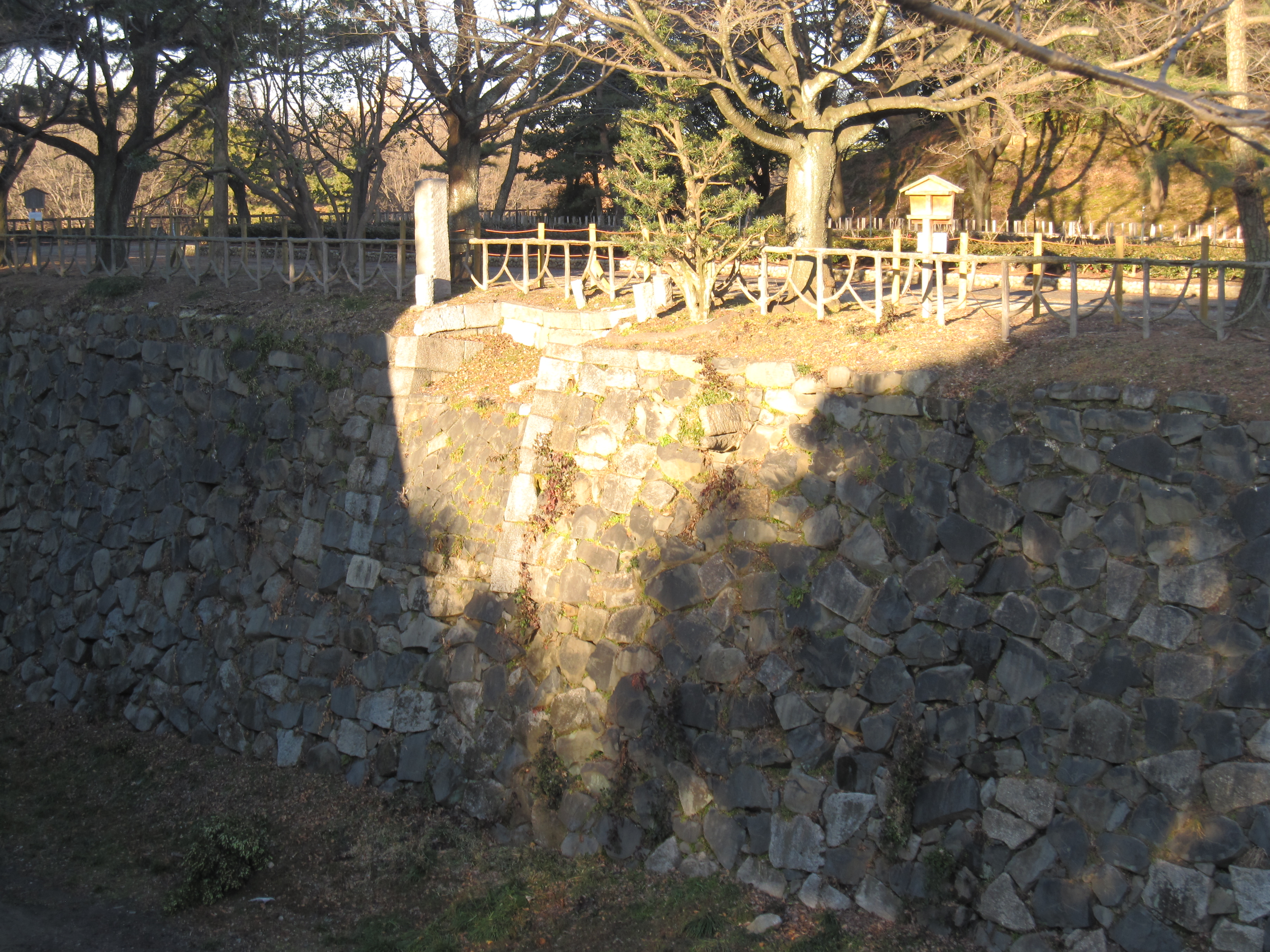 The Uzumi Gate of Nagoya Castle led to an underground tunnel that ran beneath the castle walls. This tunnel was the secret escape rout to the be used by the lord of the castle during times of emergency. The remains of the entrance can be found in the northwest part of the Ninomaru Garden. Steep stairs led down to the moat. The lord could cross the moat by boat to reach the Ofukemaru Garden on the opposite side. He could use a secret escape route to get to the Kiso Road by way of Doishita, Kachigawa and Jokoji Temple.